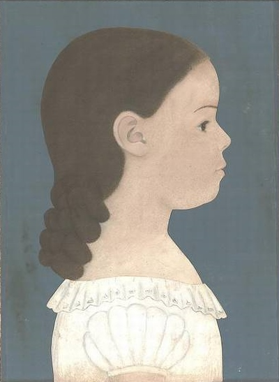 Ruth Henshaw Bascom, Elizabeth Cummings Low, watercolor, pastel, and pencil, 1829